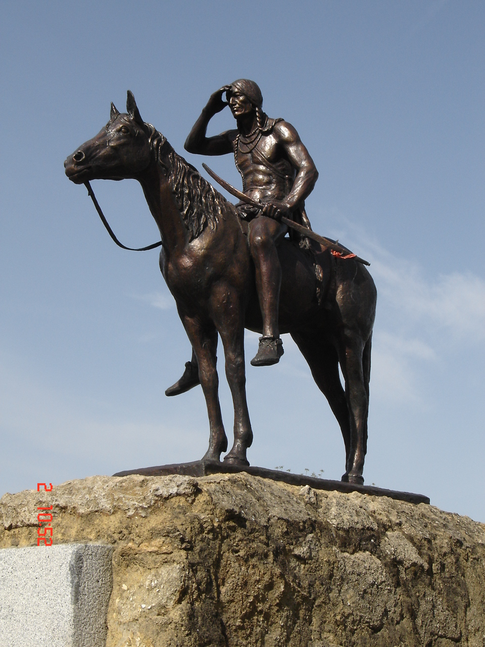 Homenaje en forma de indio rastreador, al hermanamiento de la ciudad de Kansas City con Sevilla (España). Half-size replica of Cyrus Edwin Dallin's The Scout (1910). A 1992 gift from Seville's sister-city, Kansas City, Missouri. Foto de realización propia.